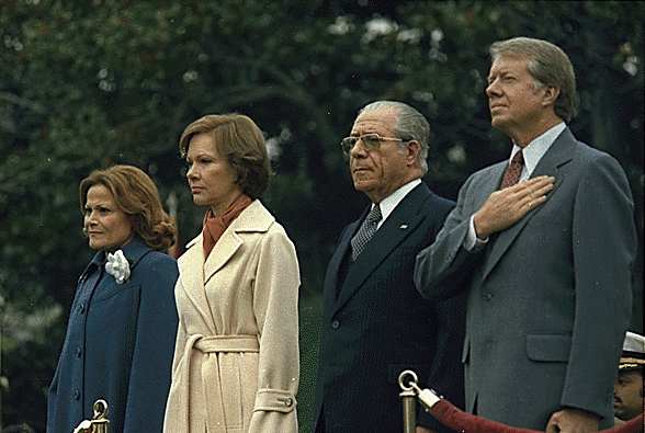 Arrival ceremony for state visit of Prime Minister Hedi Nouira of Tunisia., 11/29/1978